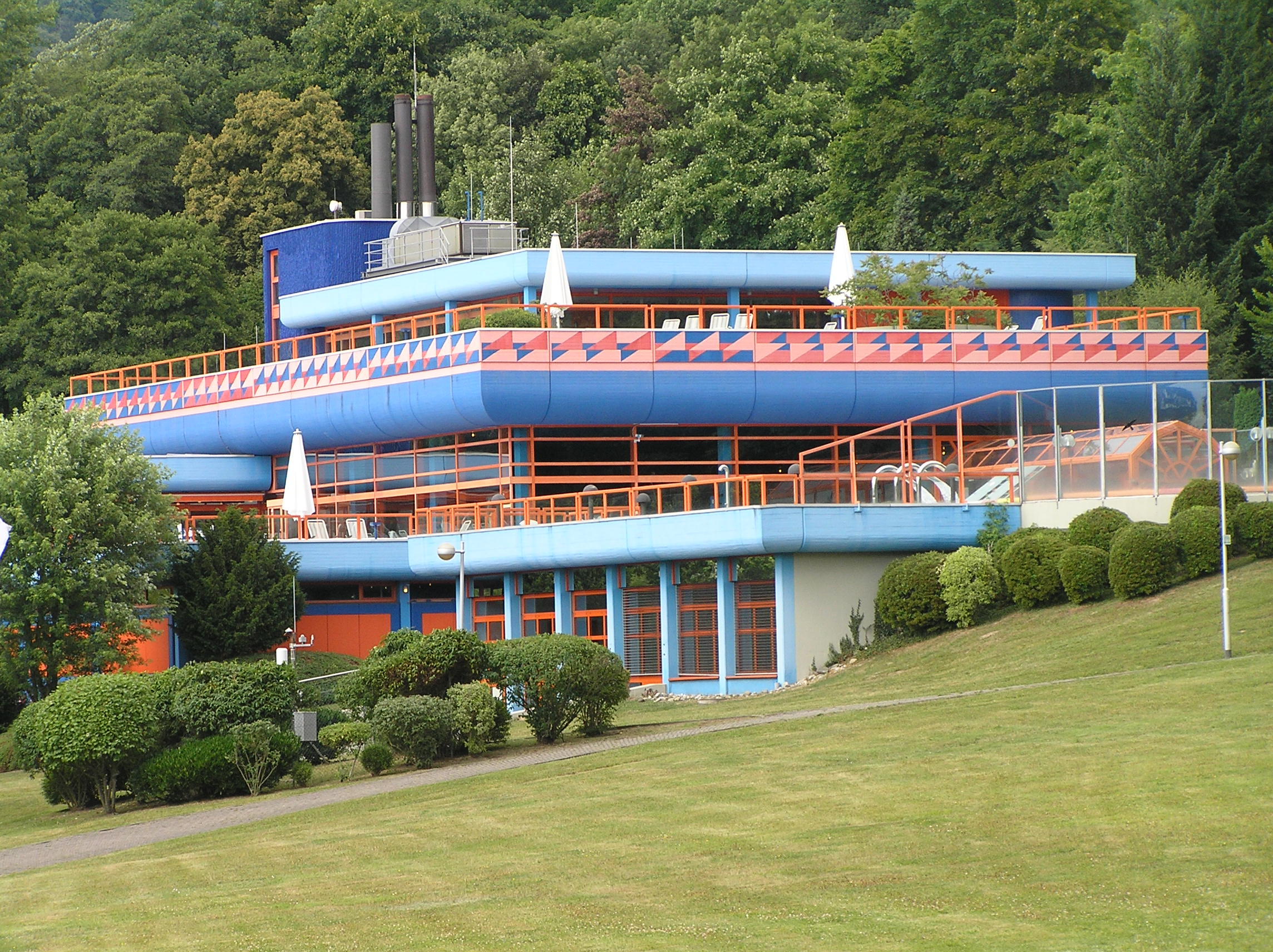 Spa bath, Königstein (Taunus), side view